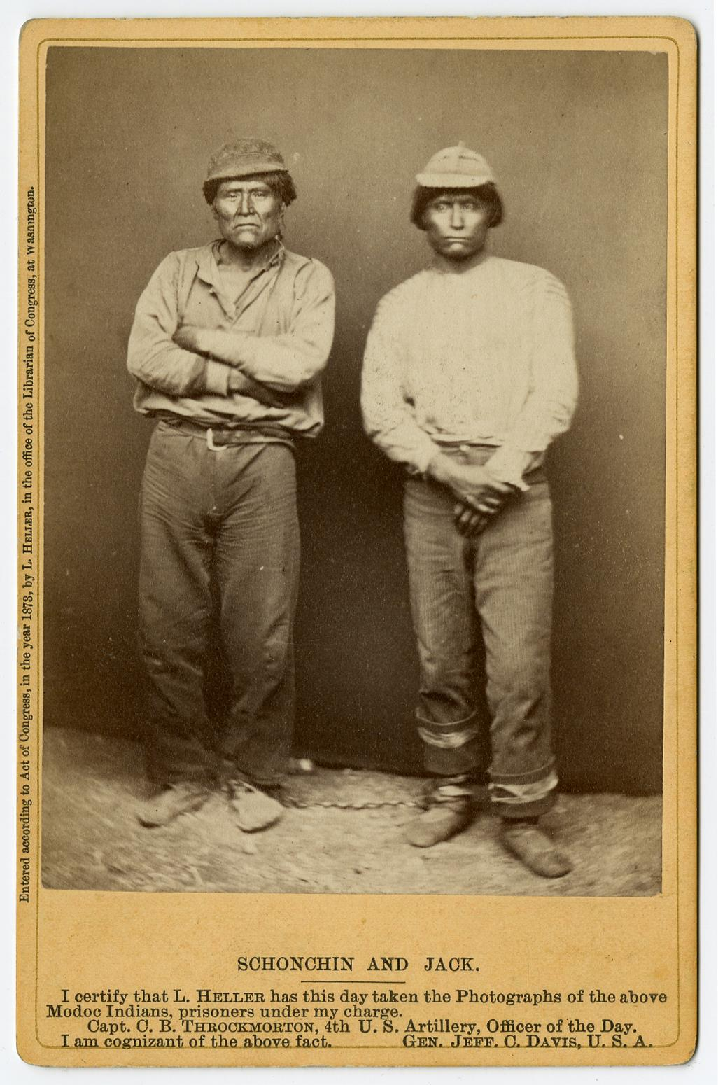 Repository: California Historical Society Collection: Photographic portraits of Modoc Indians of the Modoc War Photographer: Heller, Louis Herman Date: 1873 General note: Printed on mounts: I certify that L. Heller has this day taken the photographs of the above Modoc Indian prisoner under my charge. Capt. C.B. Throckmorton, 4th U.S. Artillery, Officer of the Day. I am cognizant of the above fact. Gen. Jeff. C. Davis, U.S.A. General note: Photos were published by Carleton E. Watkins. Watkins' Yosemite Art Gallery advertisement on verso. Format: Carte de visite Call Number: PC 006 Digital object ID: PC 006_05.jpg Preferred citation: Schonchin and Jack, Photographic portraits of Modoc Indians of the Modoc War, PC 006, courtesy, California Historical Society, PC 006_05.jpg